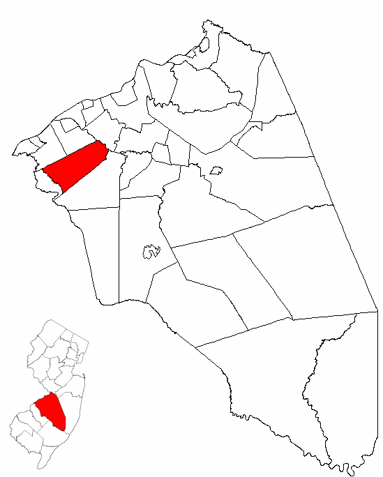 Map of Burlington County highlighting Moorestown Township